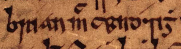 An excerpt from folio 15r of Oxford Bodleian Library MS Rawlinson B 488 (the Annals of Tigernach): "Amlaim mac Illuilb". The excerpt concerns Brian Bóruma mac Cennétig, High King of Ireland (died 1014).